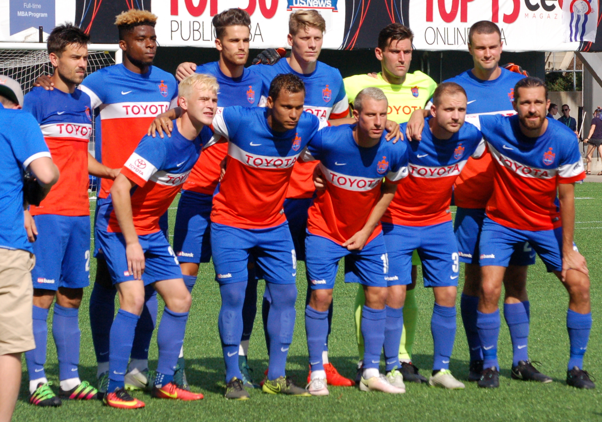 The starting lineup for FC Cincinnati poses for a group photo prior to the start of a USL regular season match against Saint Louis FC at Nippert Stadium in Cincinnati, USA on September 5, 2016. From left to right, the back row is Andrew Wiedeman, Sean Okoli, Álvaro Antón Ripoll, Harrison Delbridge, Mitch Hildebrandt, and Austin Berry, and the front row is Jimmy McLaughlin, Kenney Walker, Corben Bone, Tyler Polak, and Pat McMahon.